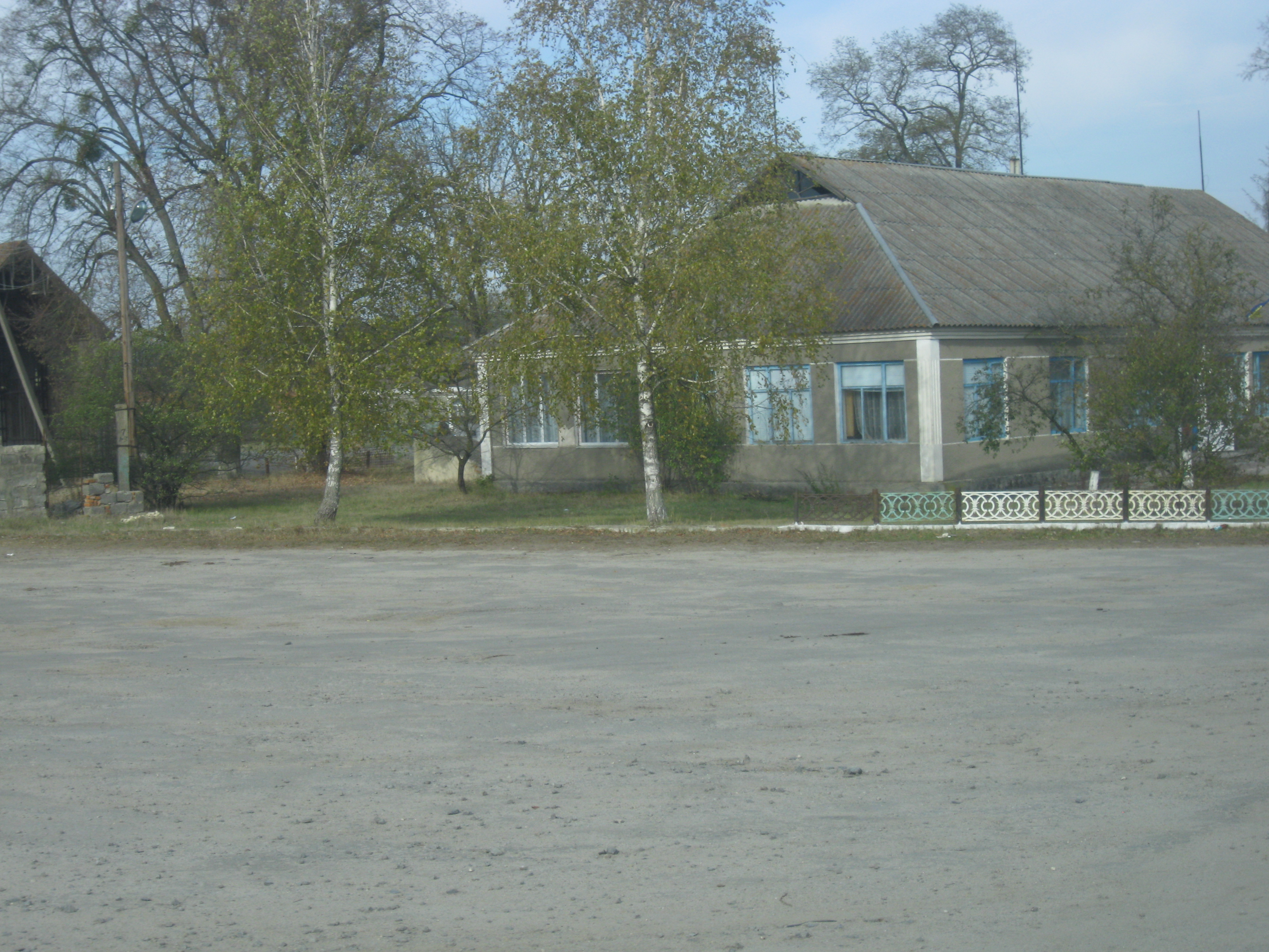 Varvarivka village